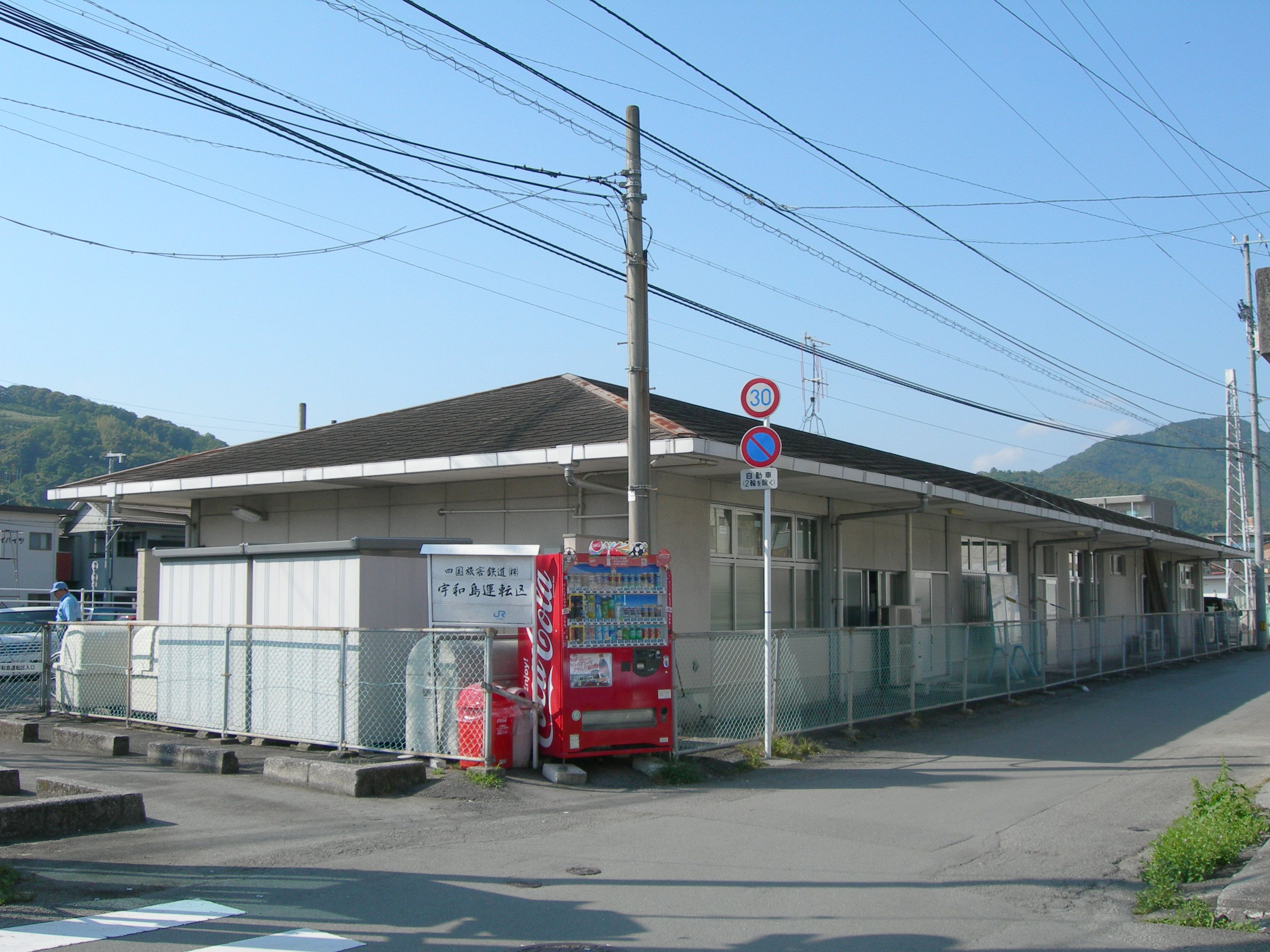 Uwajima Train Drivers Depot